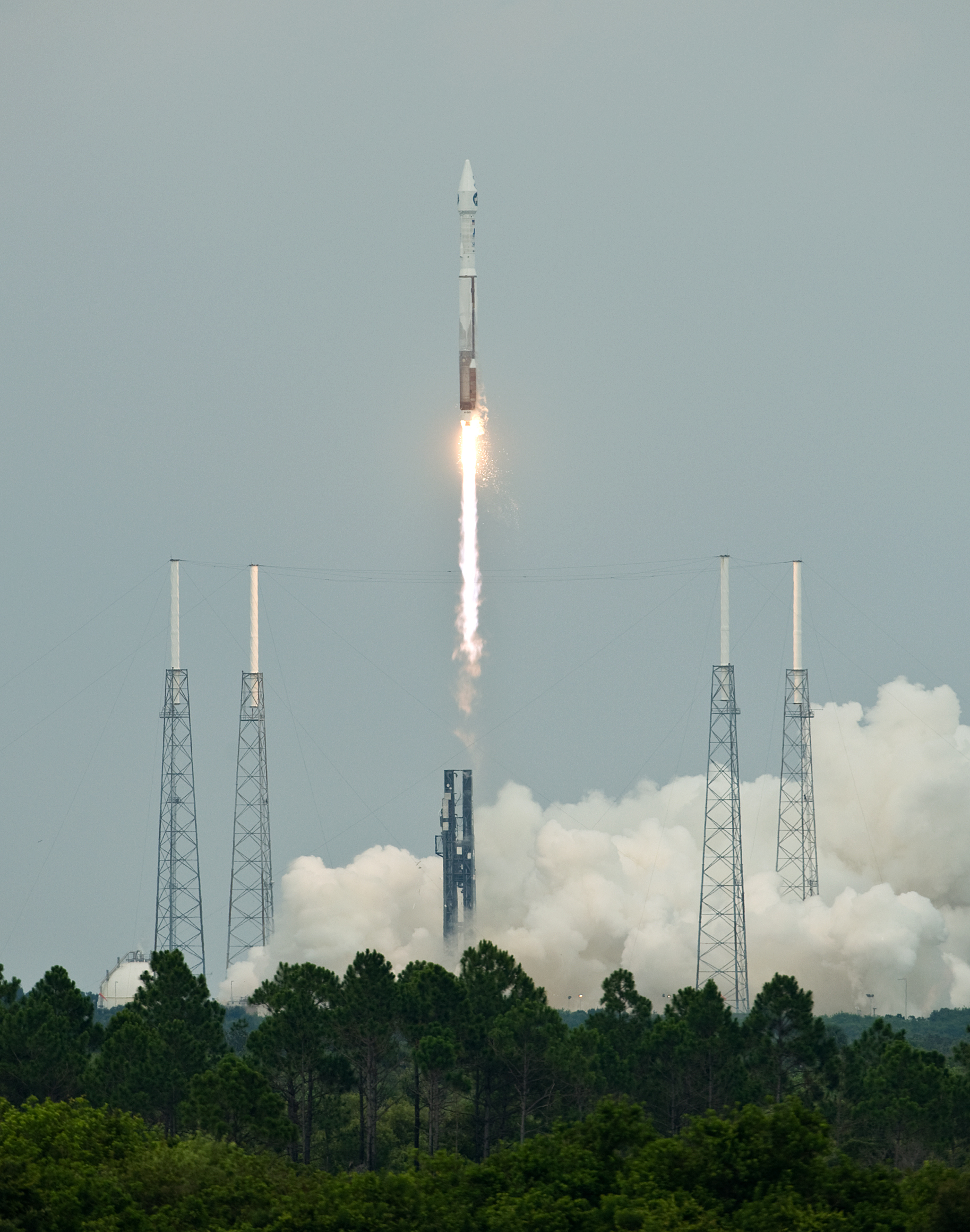 Smoke fills the pad and trails behind the Atlas V/Centaur rocket as it roars into space carrying NASA's Lunar Reconnaissance Orbiter, or LRO, and NASA's Lunar Crater Observation and Sensing Satellite, known as LCROSS. Surrounding the pad are lightning towers. LRO and LCROSS are the first missions in NASA's plan to return humans to the moon and begin establishing a lunar outpost by 2020. The LRO also includes seven instruments that will help NASA characterize the moon's surface: DIVINER, LAMP, LEND, LOLA , CRATER, Mini-RF and LROC. Launch occurred around 5:32 p.m. EDT June 18.